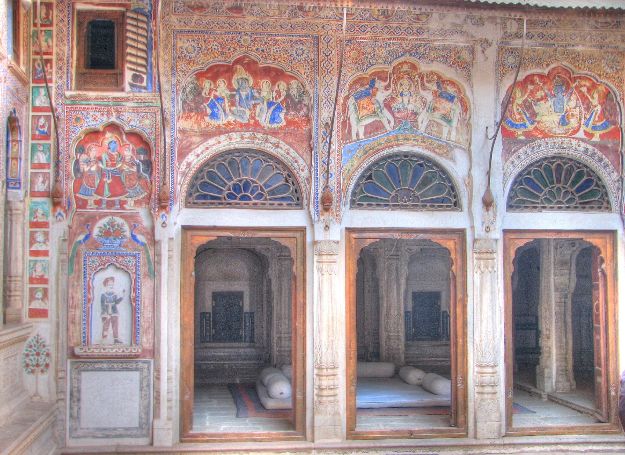 Painted Havelis 05 HDR